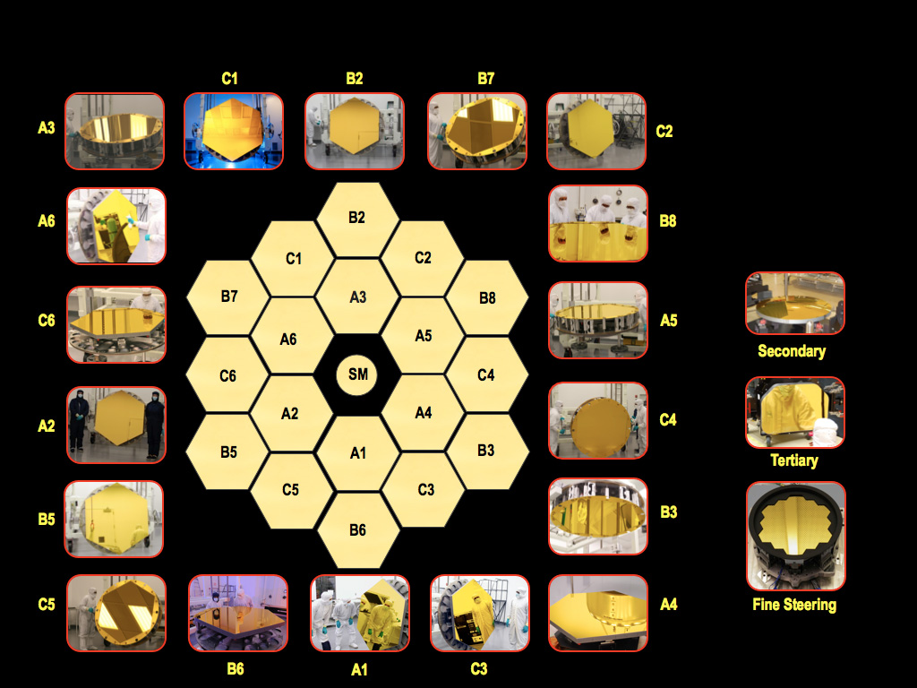 James Webb's mirrors